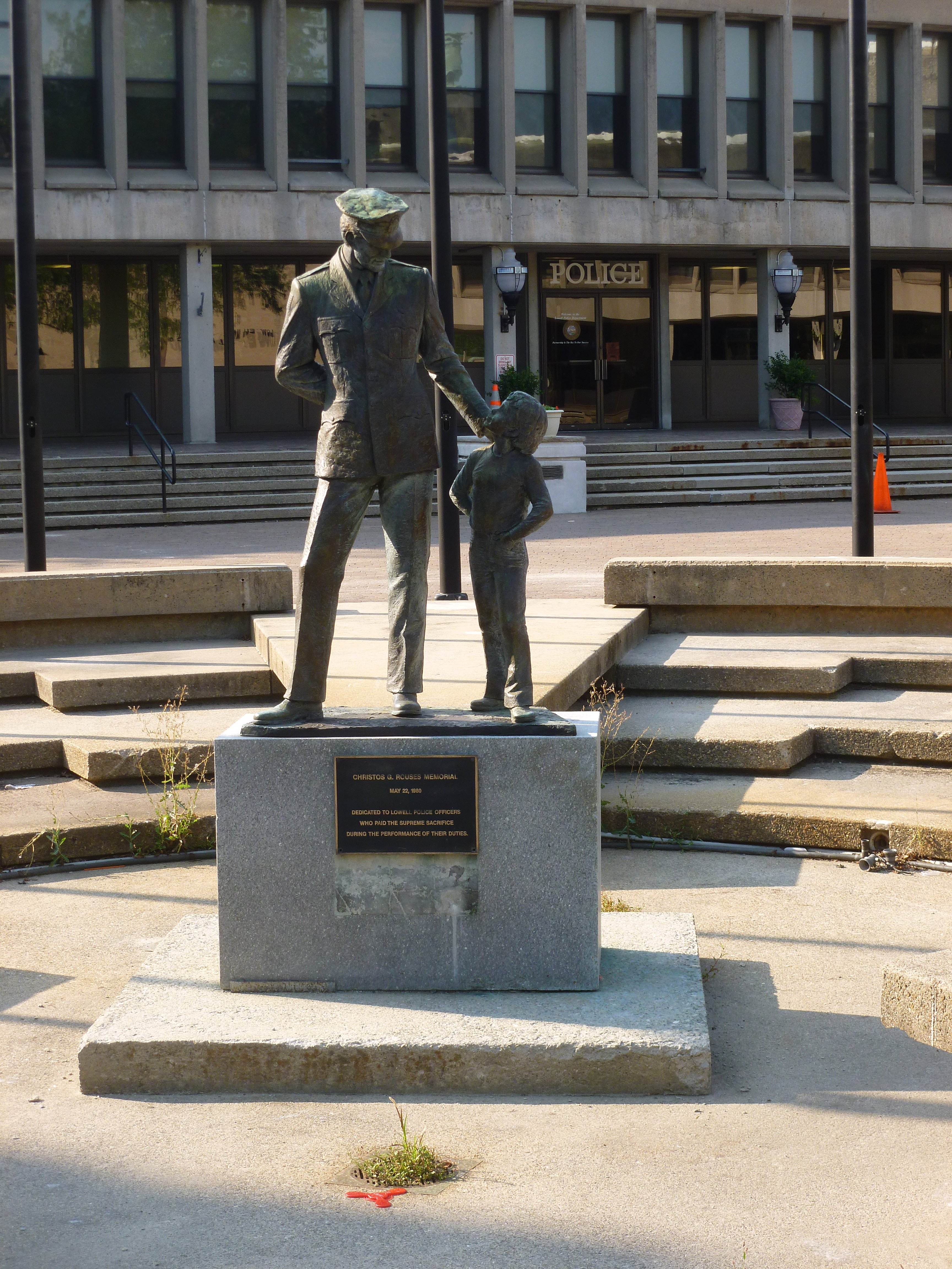 The Christos G. Rouses memorial, a monument to Lowell police officers who died in the line of duty. Located in the John F. Kennedy Civic Center at 50 Arcand Drive, Lowell, Massachusetts.